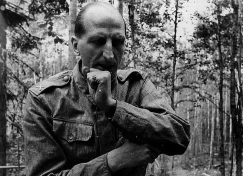 Swedish Army officer and member of the Swedish Volunteer Battalion Sven Hedengren (1897-1972) in Karelia